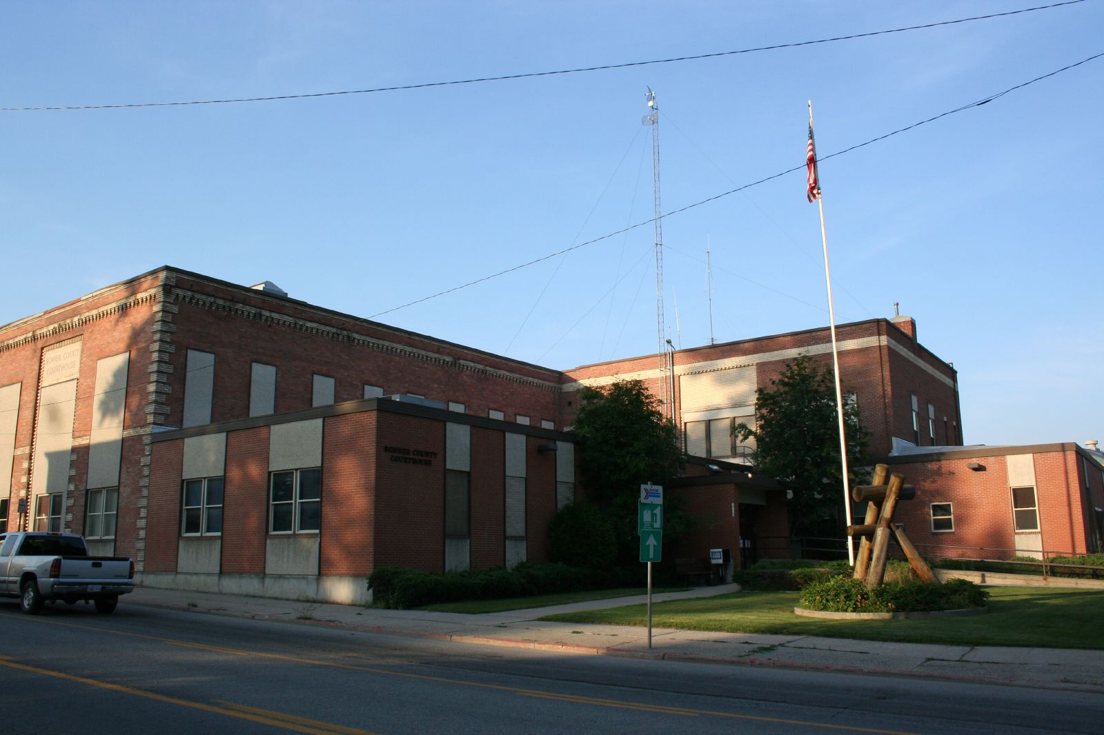 Sandpoint is the largest city in, and the county seat of, Bonner County, Idaho. Its population was 7,365 at the 2010 census. Sandpoint's major economic contributors include forest products, light manufacturing, tourism, recreation and government services. As the largest service center in the two northern Idaho counties (Bonner and Boundary), as well as northwestern Montana, it has an active retail sector. It was the headquarters of Coldwater Creek, a national women's apparel retailer; it is the headquarters of Litehouse Foods, a national salad dressing manufacturer; and Quest Aircraft, a maker of utility aircraft. Sandpoint lies on the shores of Idaho's largest lake, 43-mile-long Lake Pend Oreille, and is surrounded by three major mountain ranges, the Selkirk, Cabinet and Bitterroot ranges. It is home to Schweitzer Mountain Resort, Idaho's largest ski resort, and is on the International Selkirk Loop and two National Scenic Byways (Wild Horse Trail and Pend Oreille Scenic Byway). Among other distinctions awarded by national media in the past decade, in 2011 Sandpoint was named the nation's "Most Beautiful Small Town" by Rand McNally and USA Today.